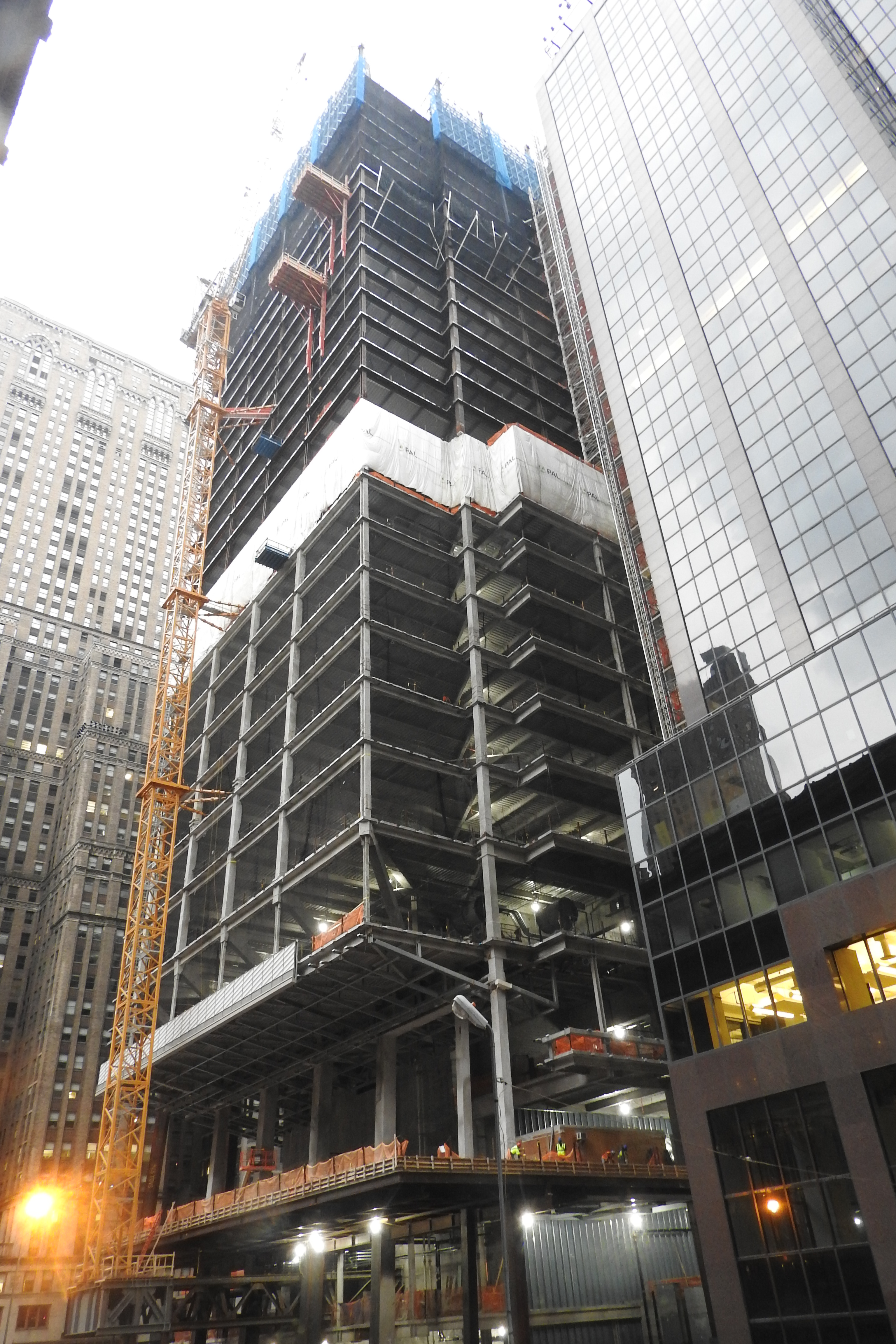 Looking west from GCT ring road on a rainy day